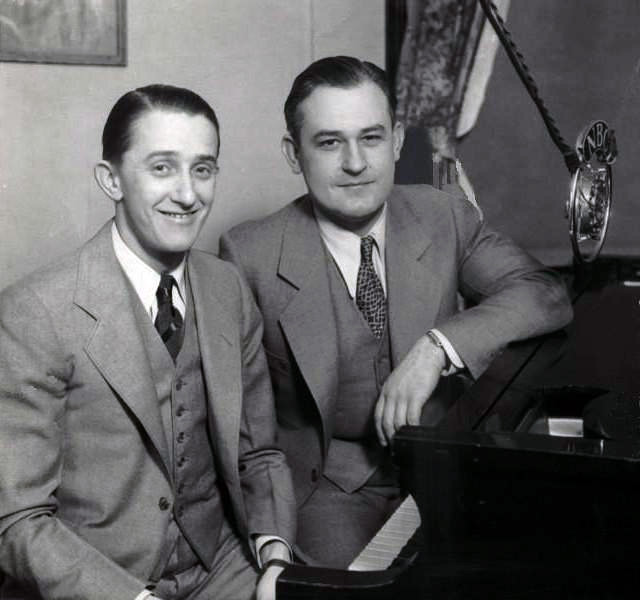 Publicity photo of Gene Carroll and Glenn Rowling who were known for their "Jake and Lena" characters. The duo had an NBC Red Network radio show that aired six nights a week from the WTAM Radio studios beginning in 1933. In the days when these men were broadcasters, radio studios resembled living or sitting rooms. When it was in Chicago, Amos n' Andy was broadcast from a studio that was designed to resemble an English library at home. Thus it looks like they are broadcasting from someplace other than a radio studio. The copy on the back of the photo is hard to read but it says, "Gene and Glenn otherwise "Jake and Lena" of radio fame who headline Michigan Theatre bill this week." When this radio show was on the air, most network programming originated from either New York or Chicago, so it was uncommon to have a network radio show broadcasting from Cleveland. It's also of note that the program was on the NBC Red Network, as it was considered the "premier", as opposed to the NBC Blue Network. In 1935, Amos 'n' Andy had only moved to the Red Network after some years on Blue. NBC had not yet fully established a Radio City West in Hollywood where many network shows from these cities would later relocate to. When NBC was forced to divest itself of one of its networks by an antitrust suit circa 1942, it chose to sell the Blue Network, which became ABC.